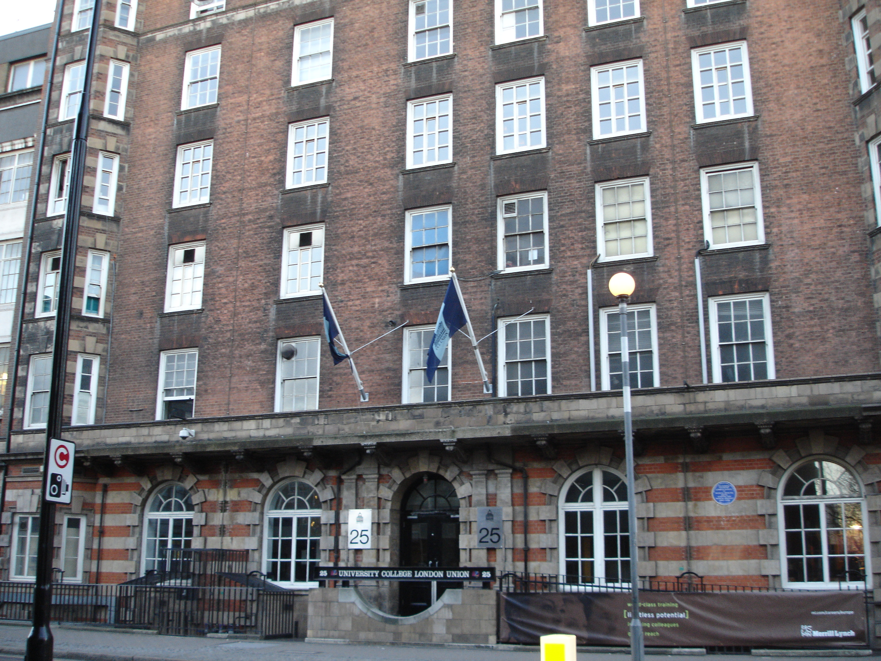 University College London Union, Gordon Street